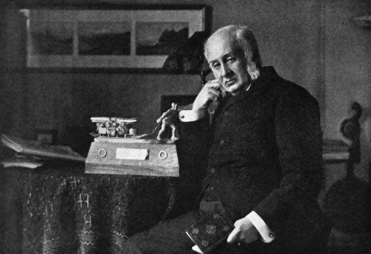 Sir Clements Robert Markham. Sepia-toned bromide print, 1904-1905